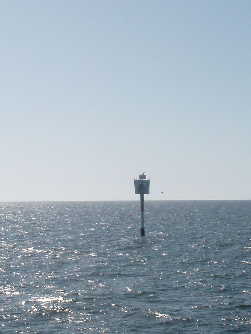 The marker light / radar target that replaced the demolished lighthouse